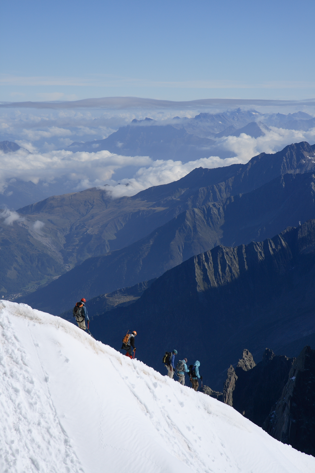 Mountaineers, leaving the top station of the Aiguille du Midi